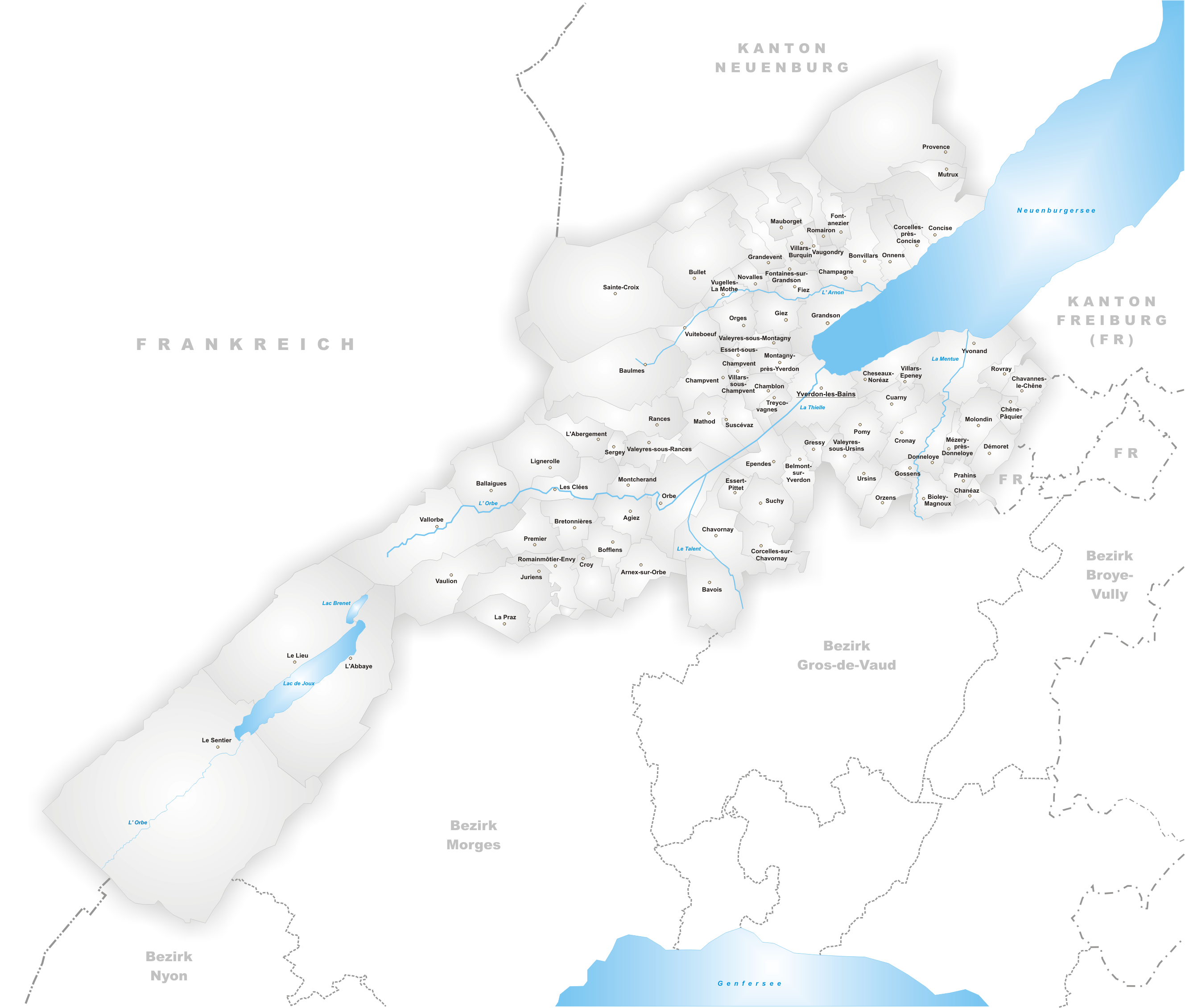 Municipalities of District Jura - Nord vaudois from 2008